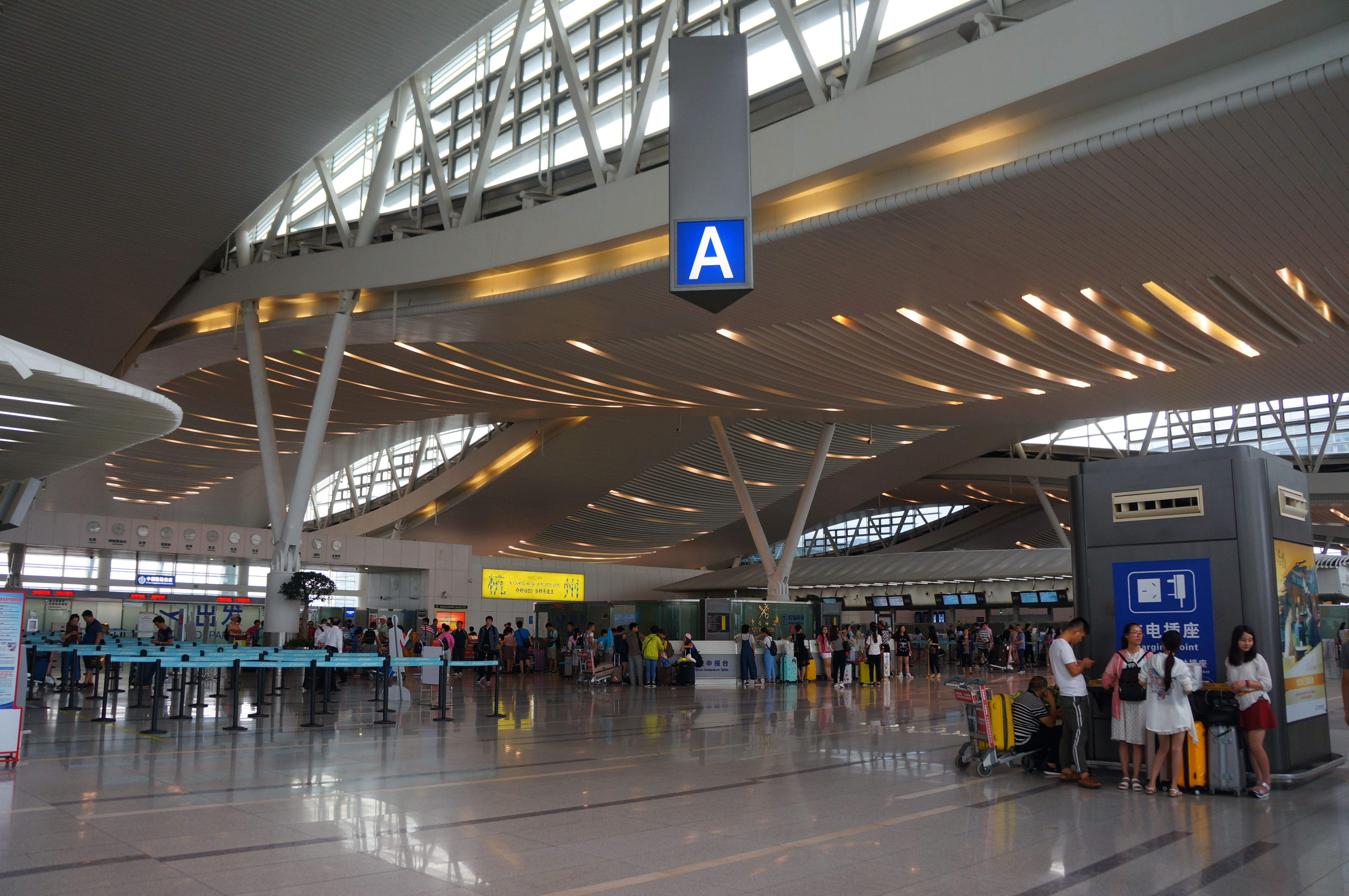 201607 Departure hall at HGH T2